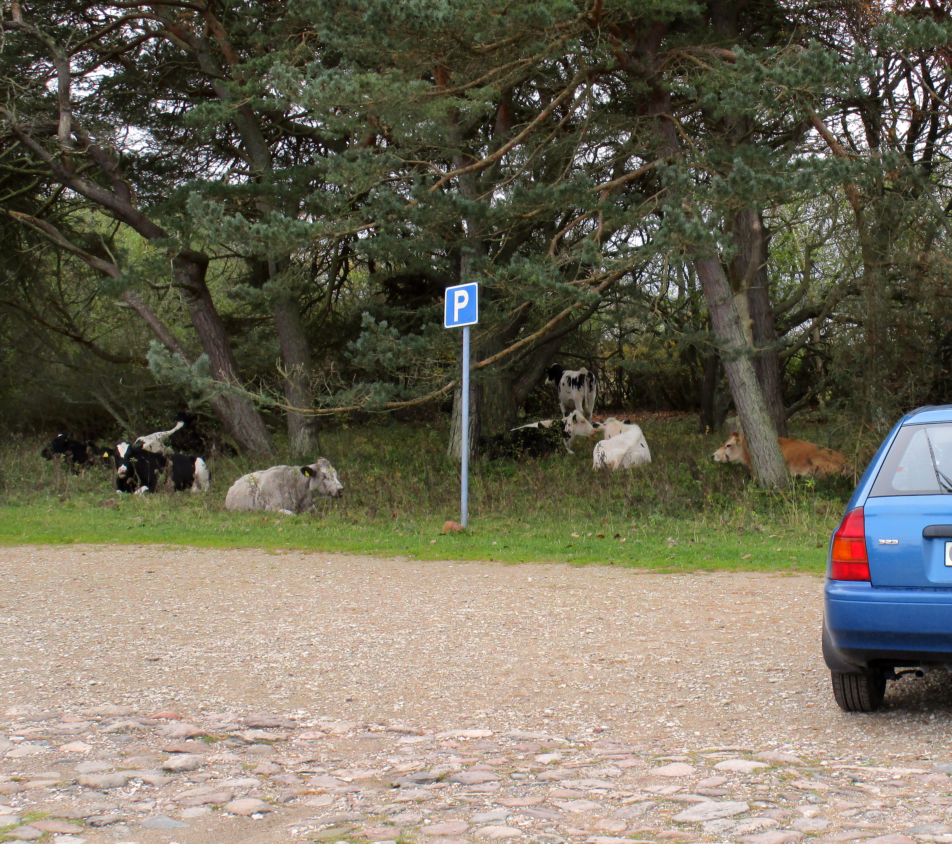 Rural parking lot at Kovik, Gotland